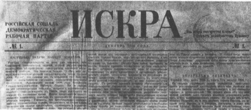 Iskra newspaper, #1. , published in Switzerland 1900